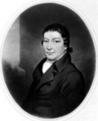 William Radcliffe (1761–1842) was a British inventor and author of the essay Origin of the New System of Manufacture, Commonly Called Power loom Weaving.